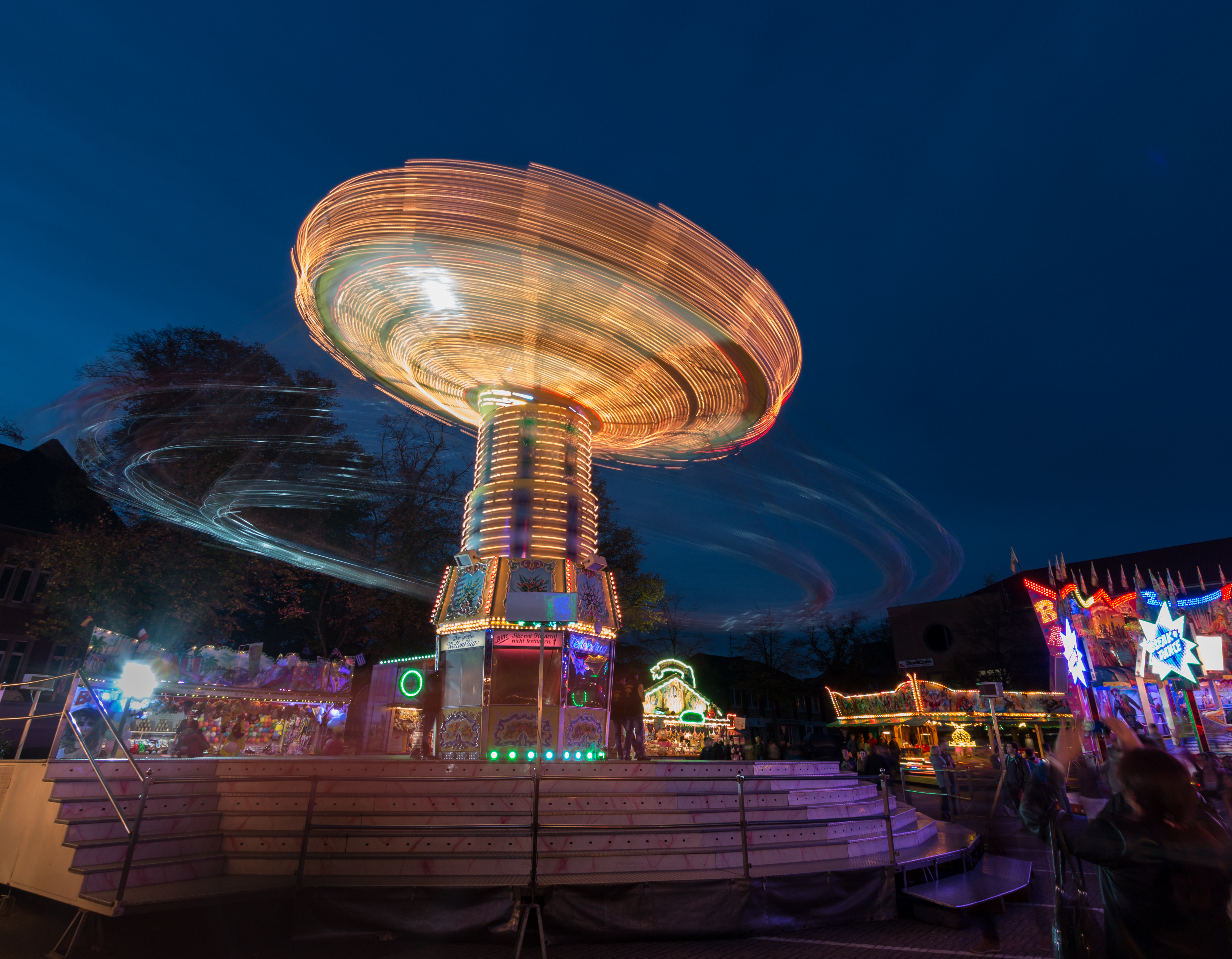 Light traces of a chain carousel, Viktorkirmes in Dülmen, North Rhine-Westphalia, Germany